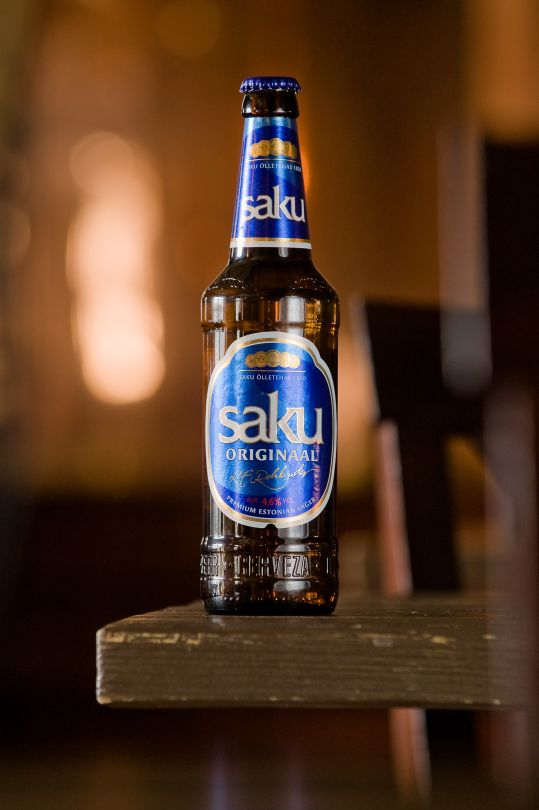 Picture of new Saku Originaal bottle, launched in 2009.